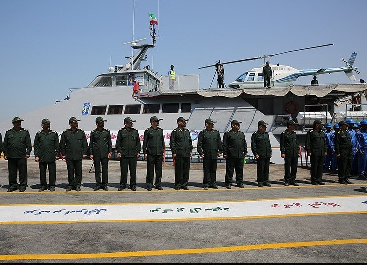 Accession ceremony of Shahid Nazeri speed vessel to Bushehr naval